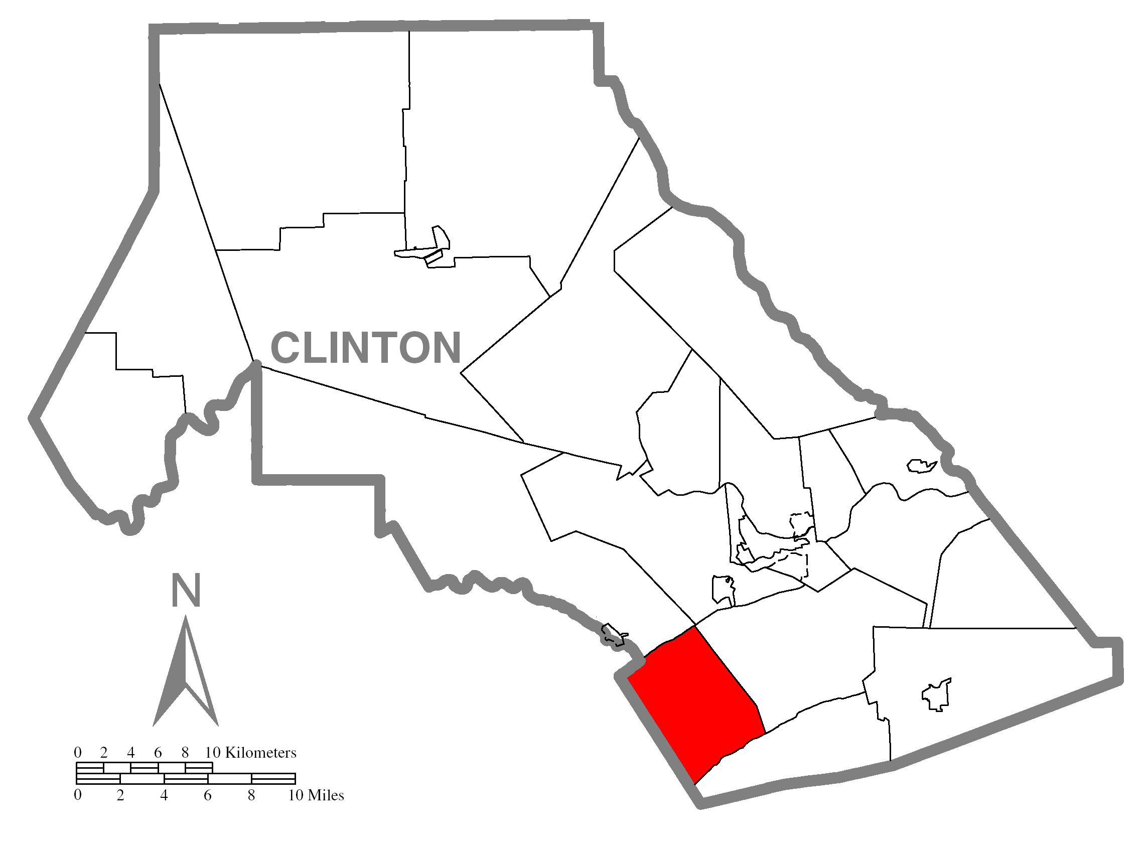 A map of Clinton County showing Porter Township, Pennsylvania (alternate) highlighted on the map.